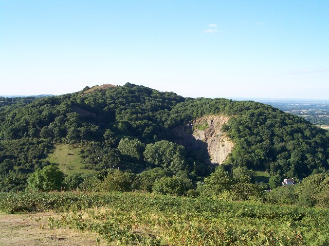 View N from western peak of Ragged Stone Hill. Supplemental. Looking towards Midsummer Hill Iron Age Hill Fort and Hollybush Quarry